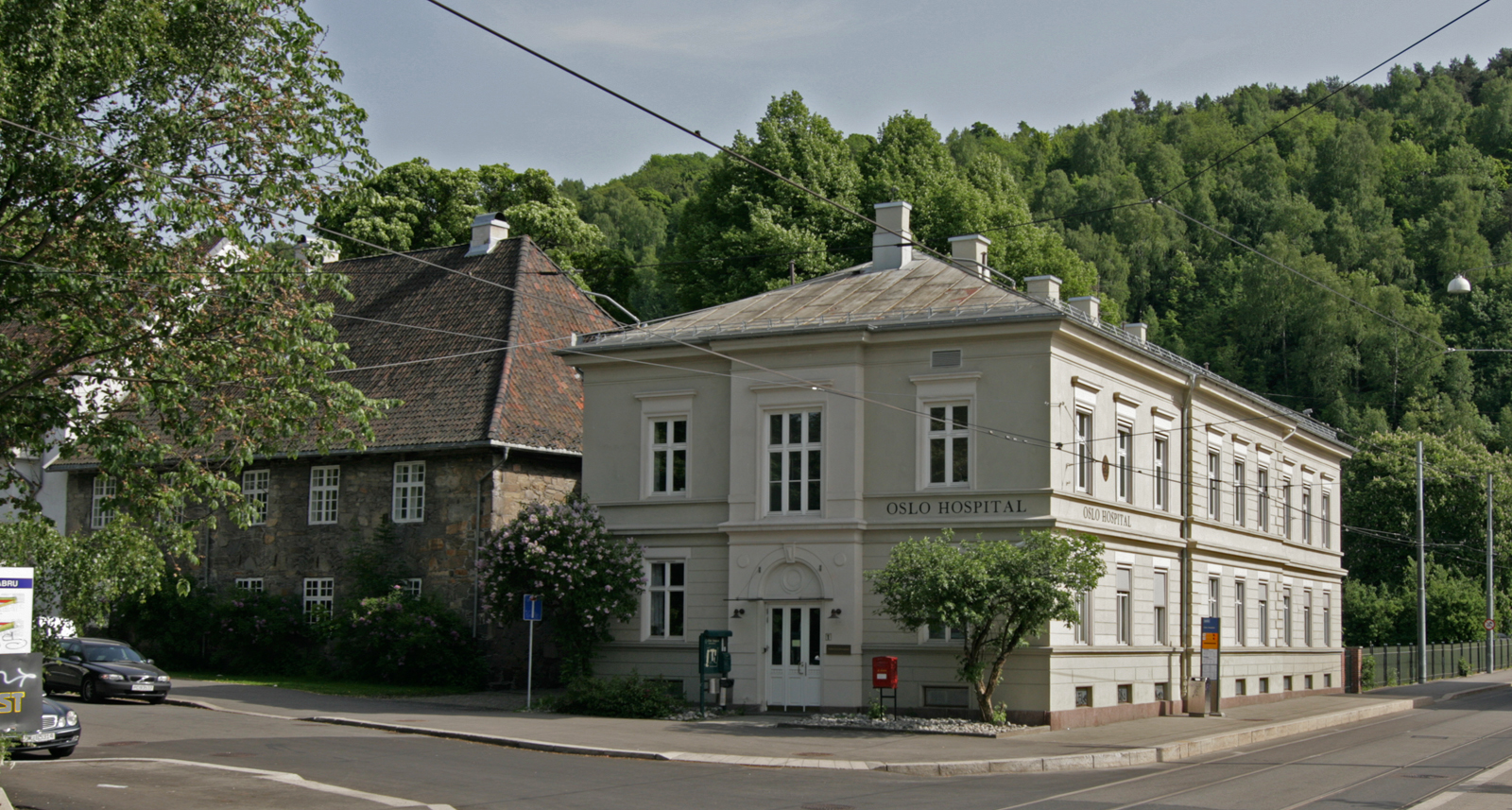 Oslo Hospital.